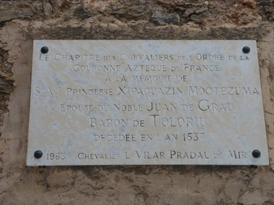 Plate on the church of Toloríu (Spain) on recall of Xipaguazin Moctezuma and Juan de Grau